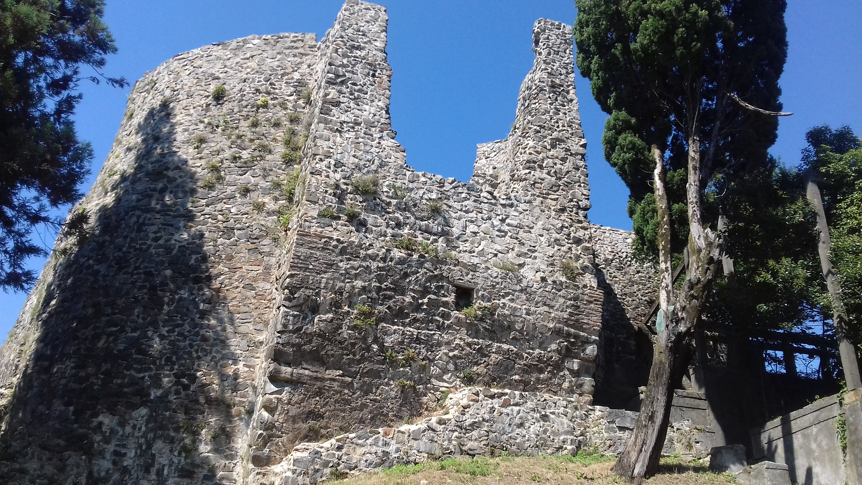 Petra Fortress walls, Georgia